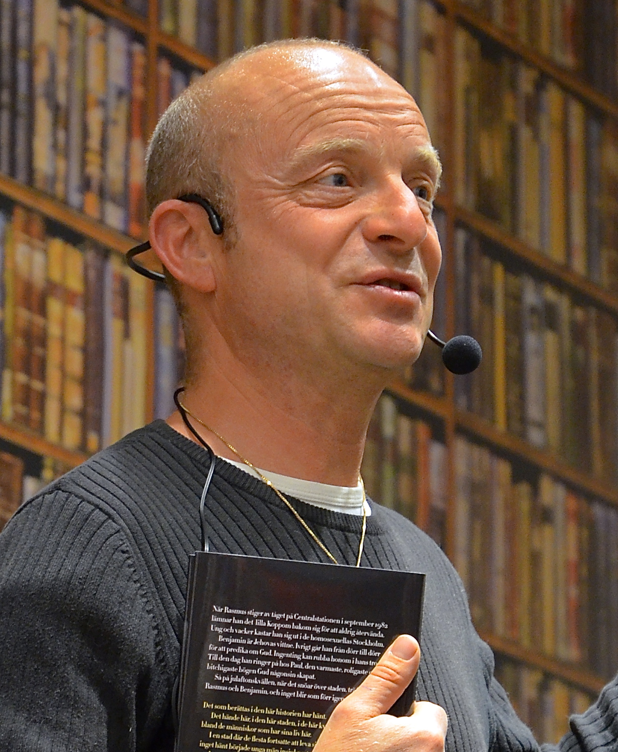 Jonas Gardell talks about his book "Never wipe tears without gloves" at Akademibokhandeln, Master Samuelsgatan in Stockholm on September 15, 2012.